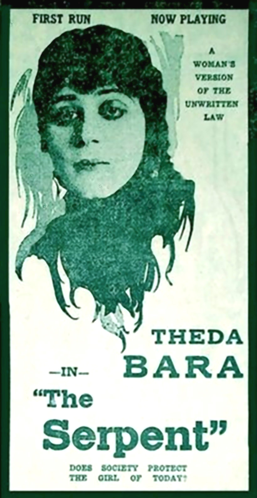 Poster for the 1916 film The Serpent from .